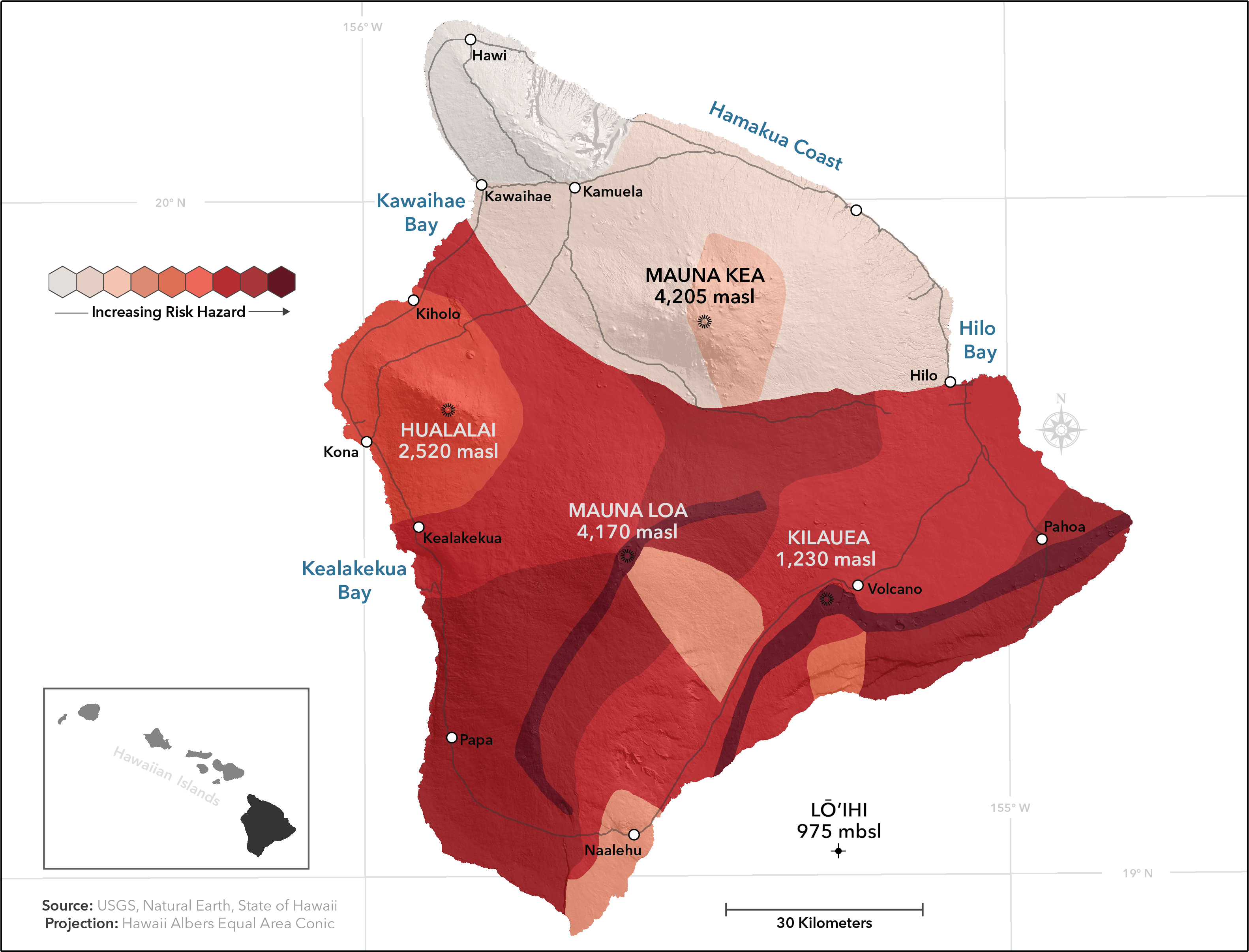 Volcanic hazards of Hawaii